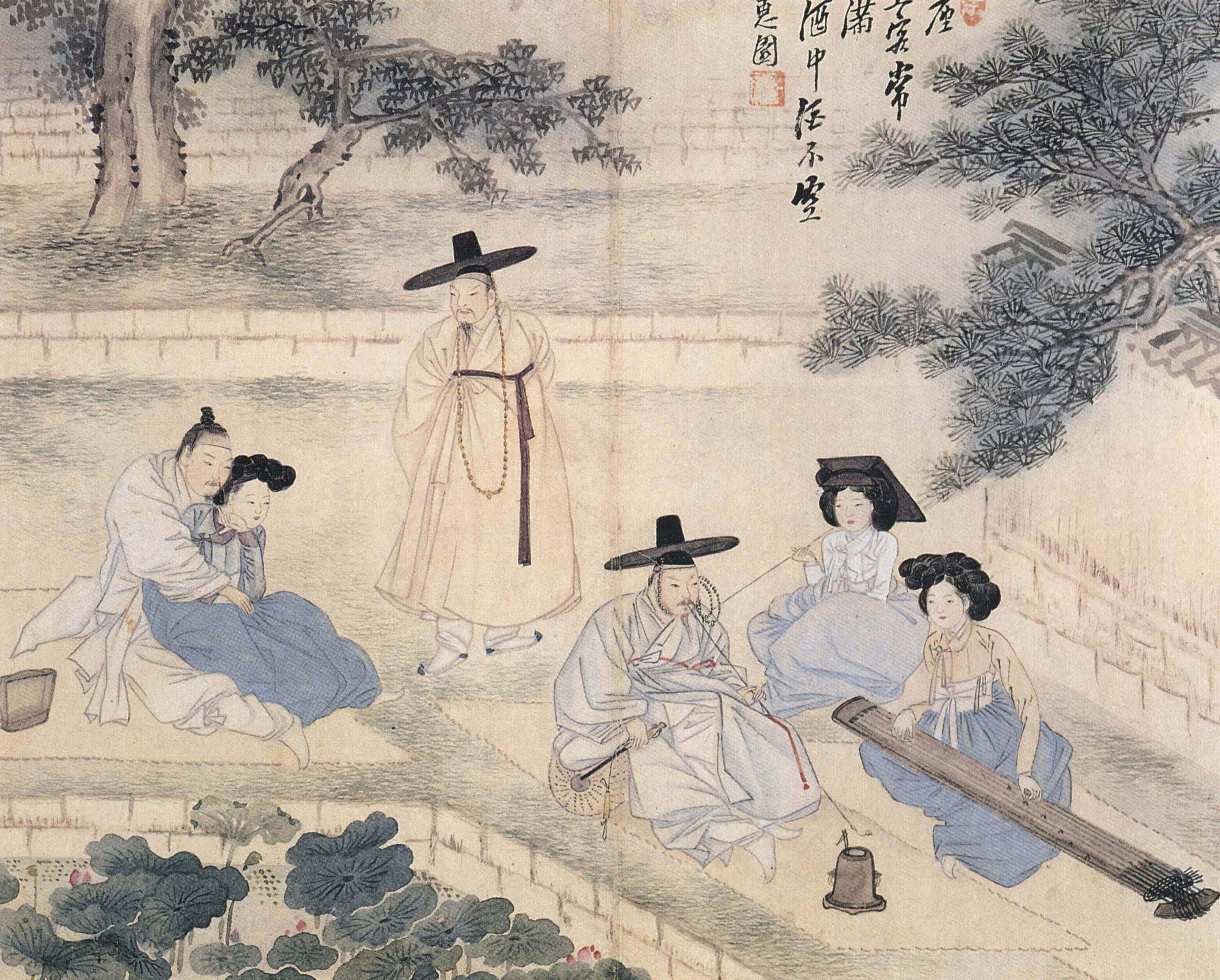 Resounding geomungo, praiseworthy lotus